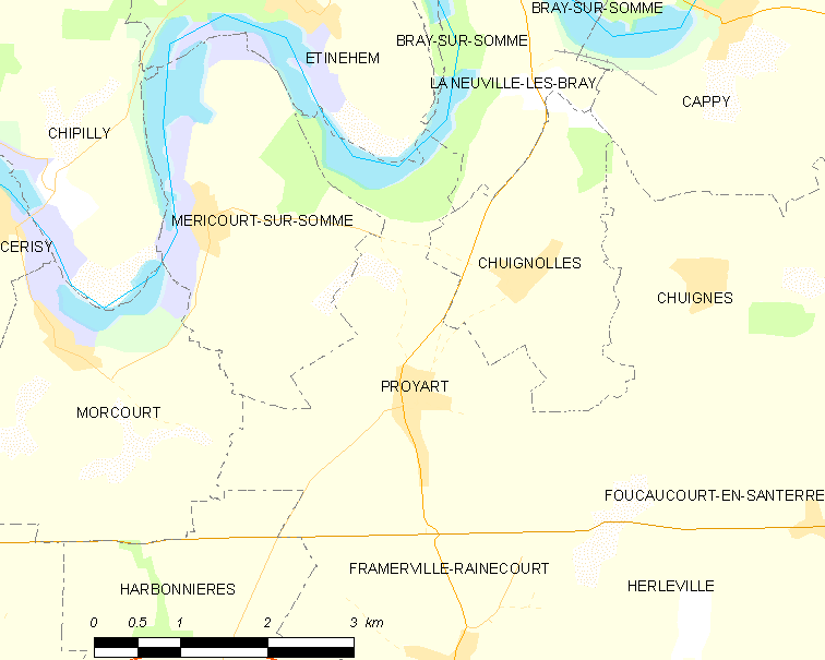 Map of French municipality Proyart